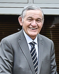 Kīngi Tūheitia, at the 2019 Koroneihana celebrations, Tūrangawaewae Marae, on 18 August 2019.